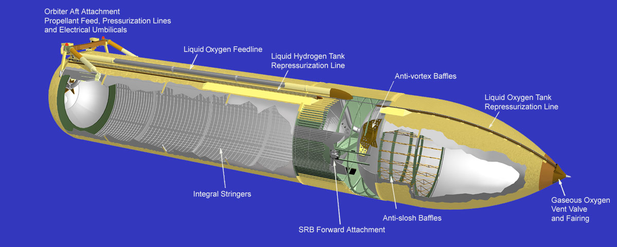 A diagram of space shuttle external tank. Source